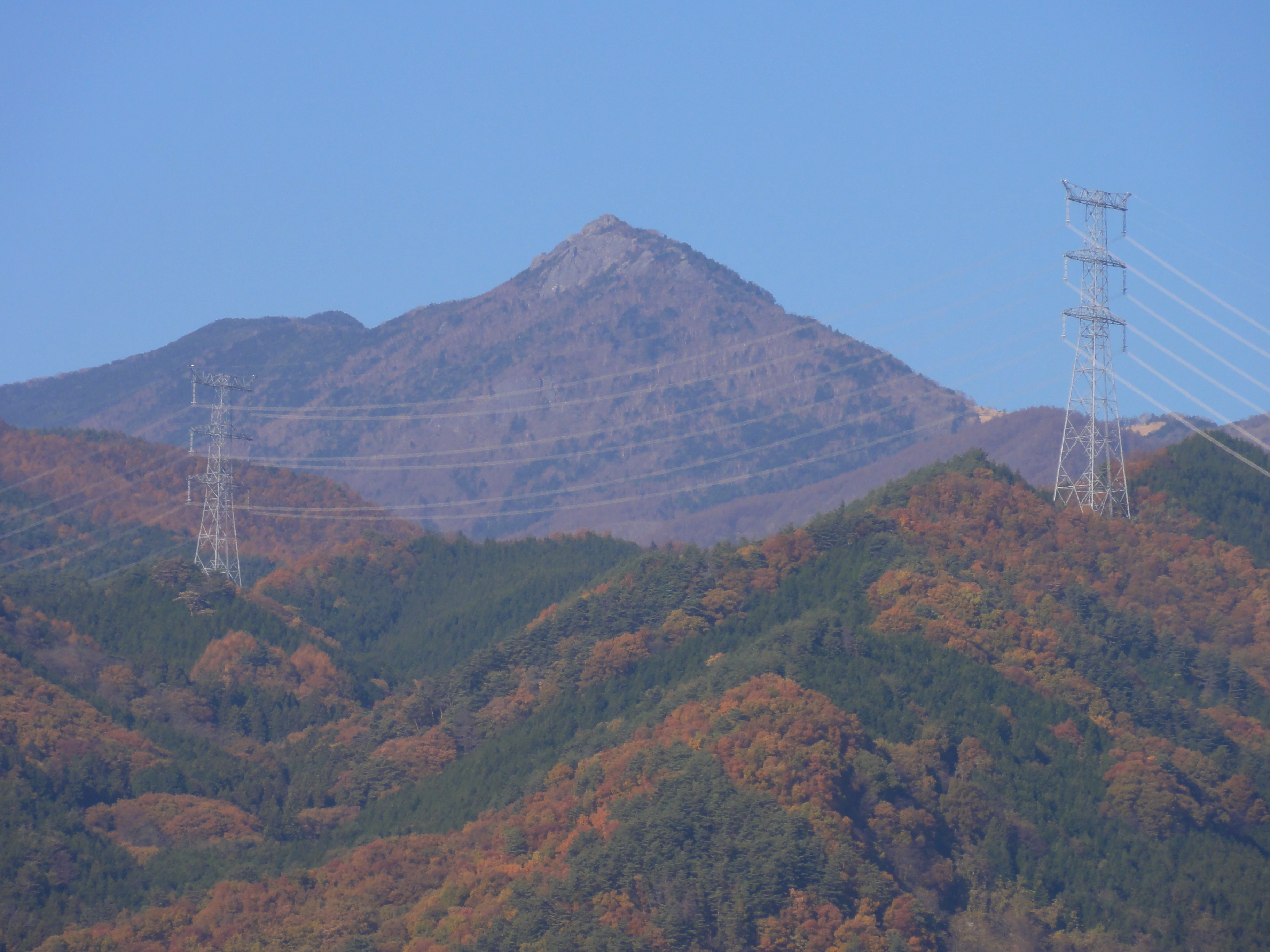 Mt Kentokusan,Yamanashi Pref., Japan